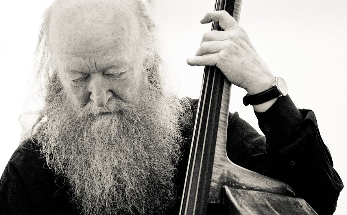 Danish bass player Hugo Rasmussen, Vanløse kirke, May 2010.